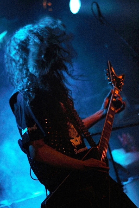 Mike Sifringer of Destruction, Brno, Fleda, 12.03.2011